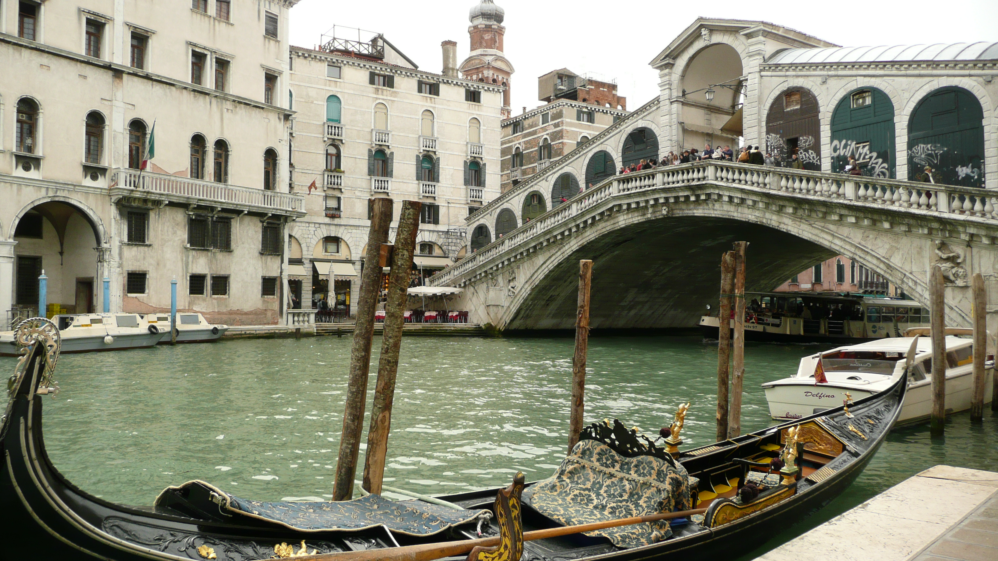 The bridge of Rialto, photographed from the west shore of the Canal Grande